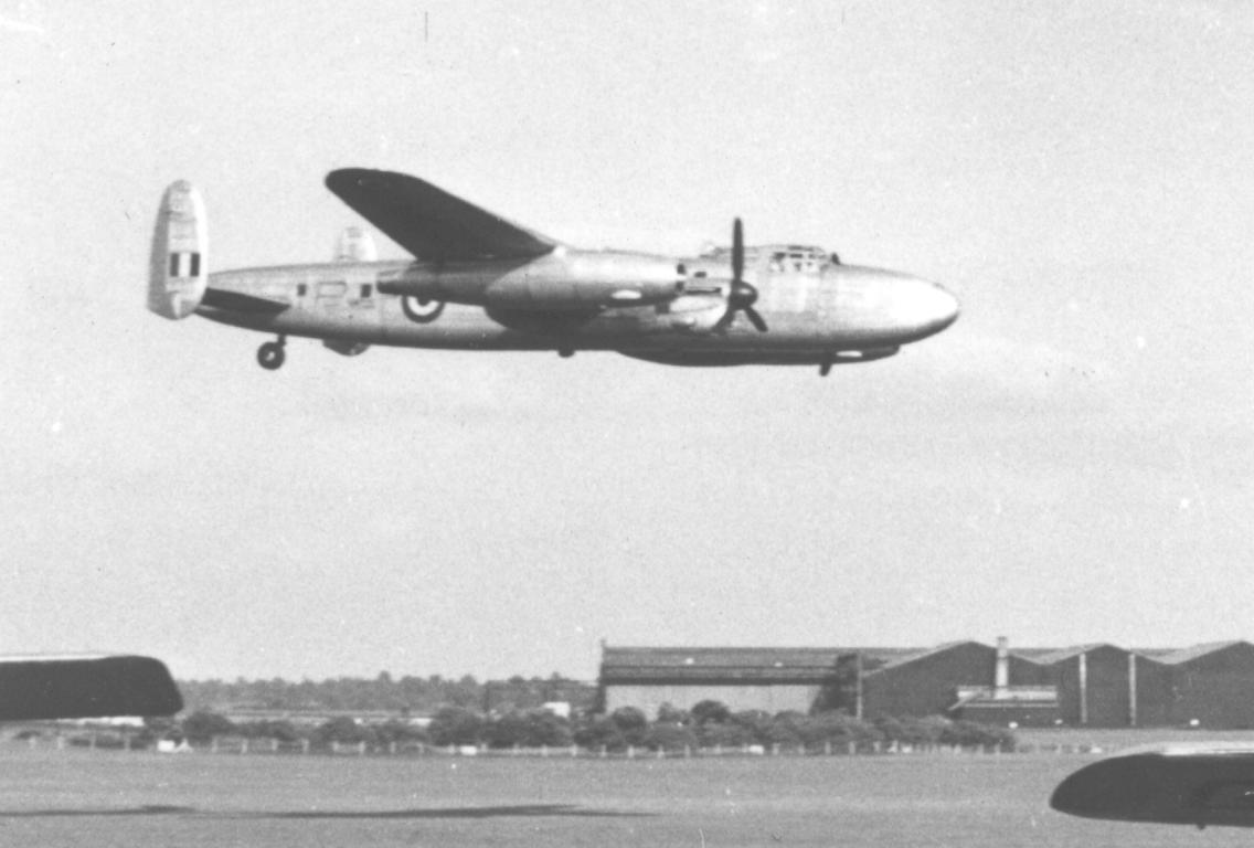 Avro 691 Lancastrian testbed for the Sapphire engine (outer positions), demonstrating at Coventry Airport